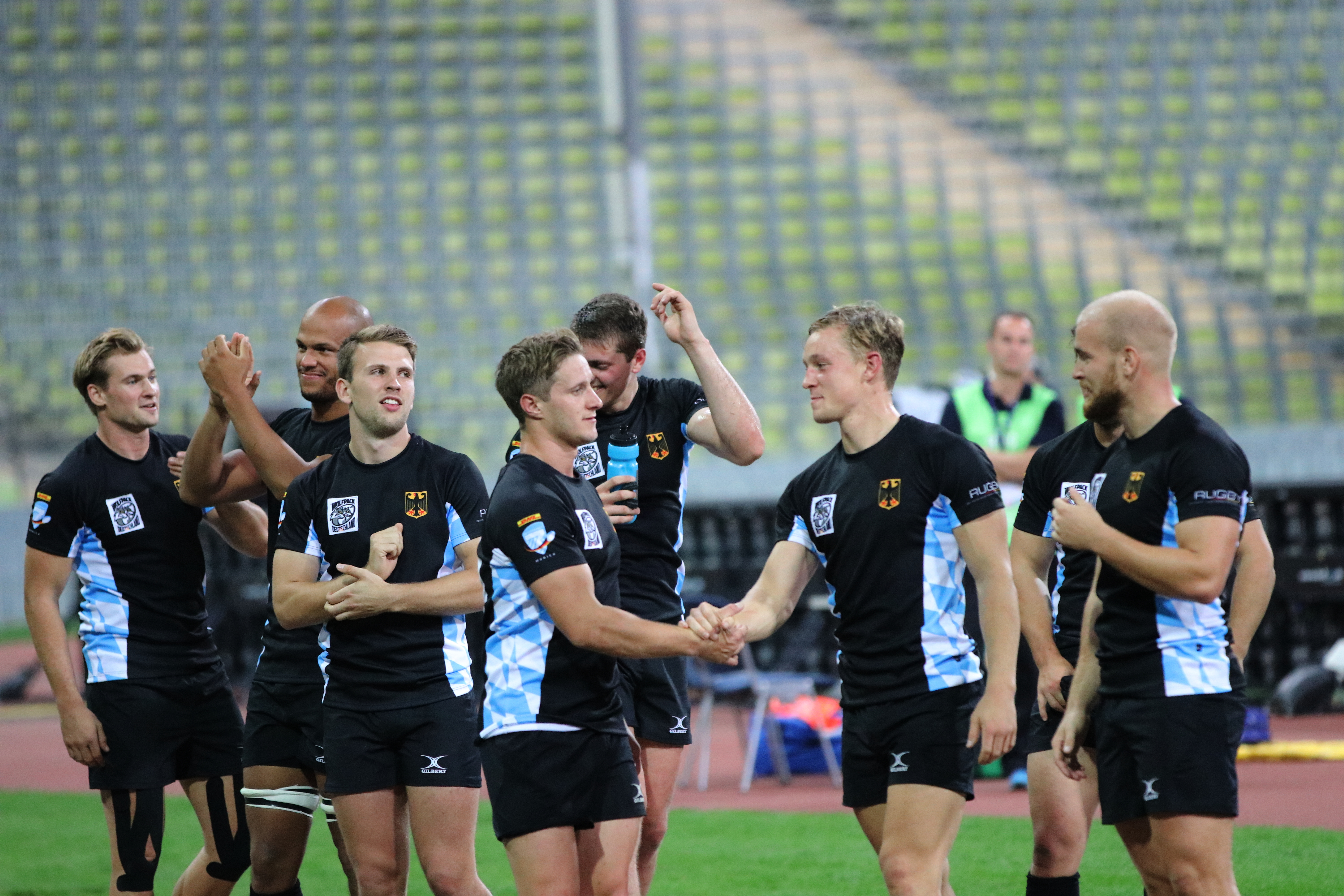 Rugby tournament "Oktoberfest 7s", Munich, 2017-09-29/30 at the Olympic stadium of Munich